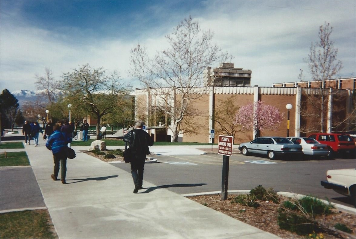 Attendees at the Novell BrainShare '95 conference walking to technical sessions being held in the Francis Armstrong Madsen Building in the David Eccles School of Business portion of the campus of the University of Utah.